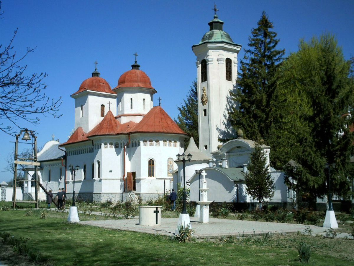 Hodoș-Bodrog Monastery in 2004. Arad County, Romania.